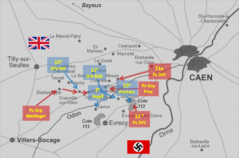 Operation Epsom main movements on 1944, June 28